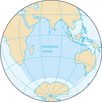 Map of Indian Ocan in Serbian. Translated from File:Indianocean - en.PNG